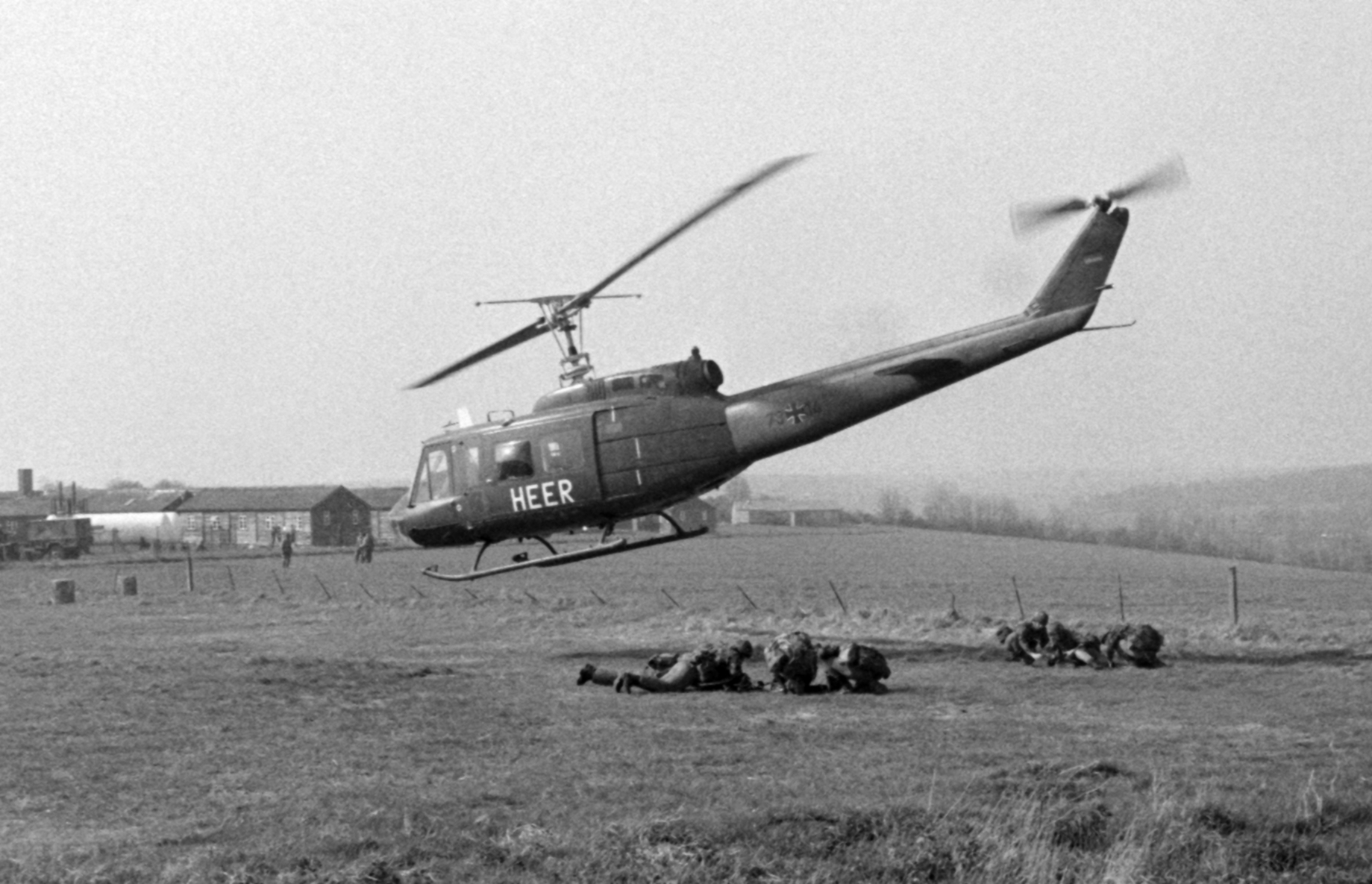 A West German UH-1D Huey helicopter (s/n 73+14) drops off Belgian commando troops at West Down Camp during NATO Exercise ARDENT GROUND '87. Members of the Allied Command Europe Mobile Force from Belgium, the Netherlands, West Germany, Italy, Luxembourg, the United Kingdom and the United States were participating in the live artillery/air exercise being staged on Salisbury Plain Training Area in Wiltshire (UK) on 24 April 1987.